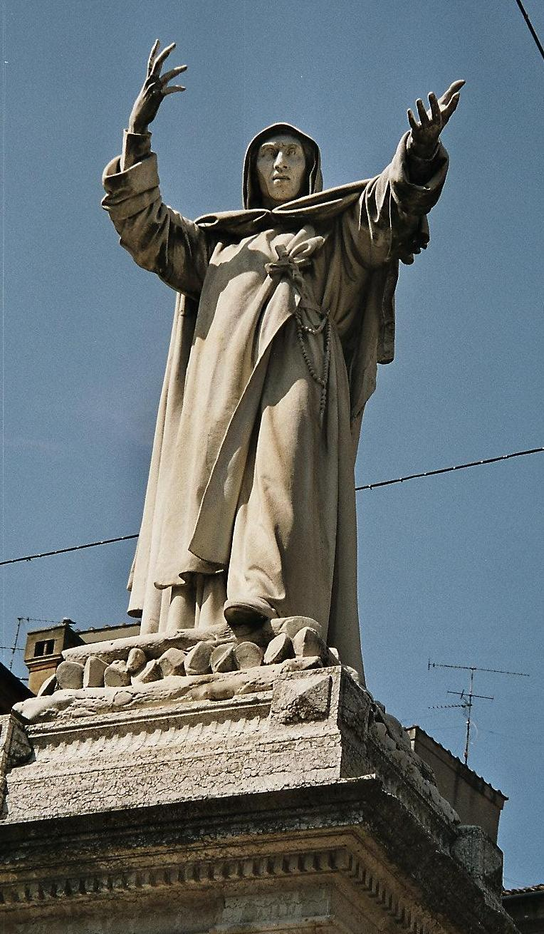 Statue of Girolamo Savonarola in Ferrara